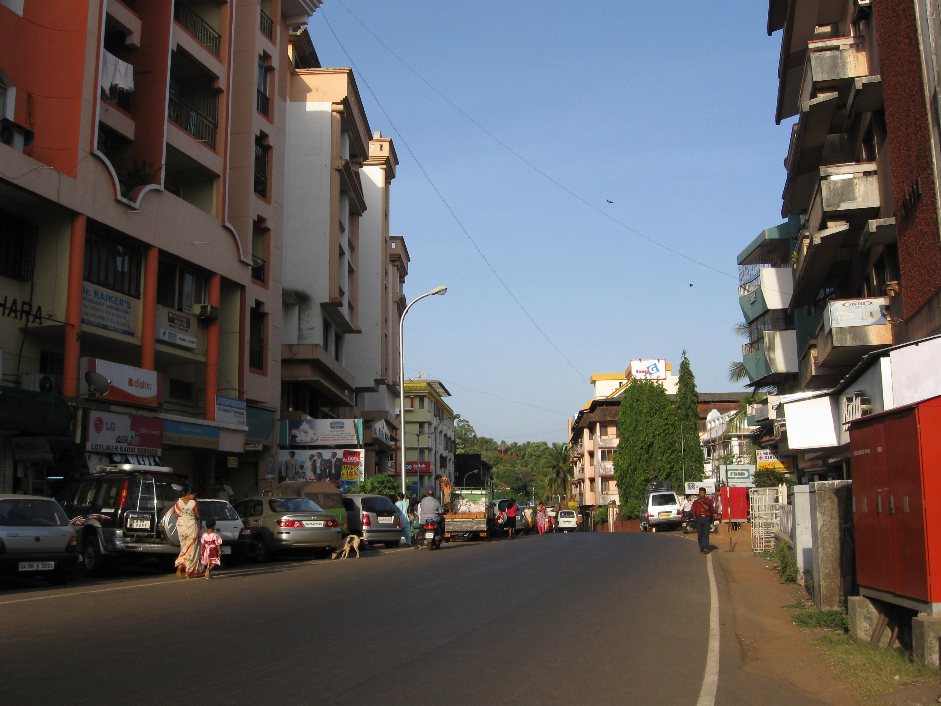 Street in Margao